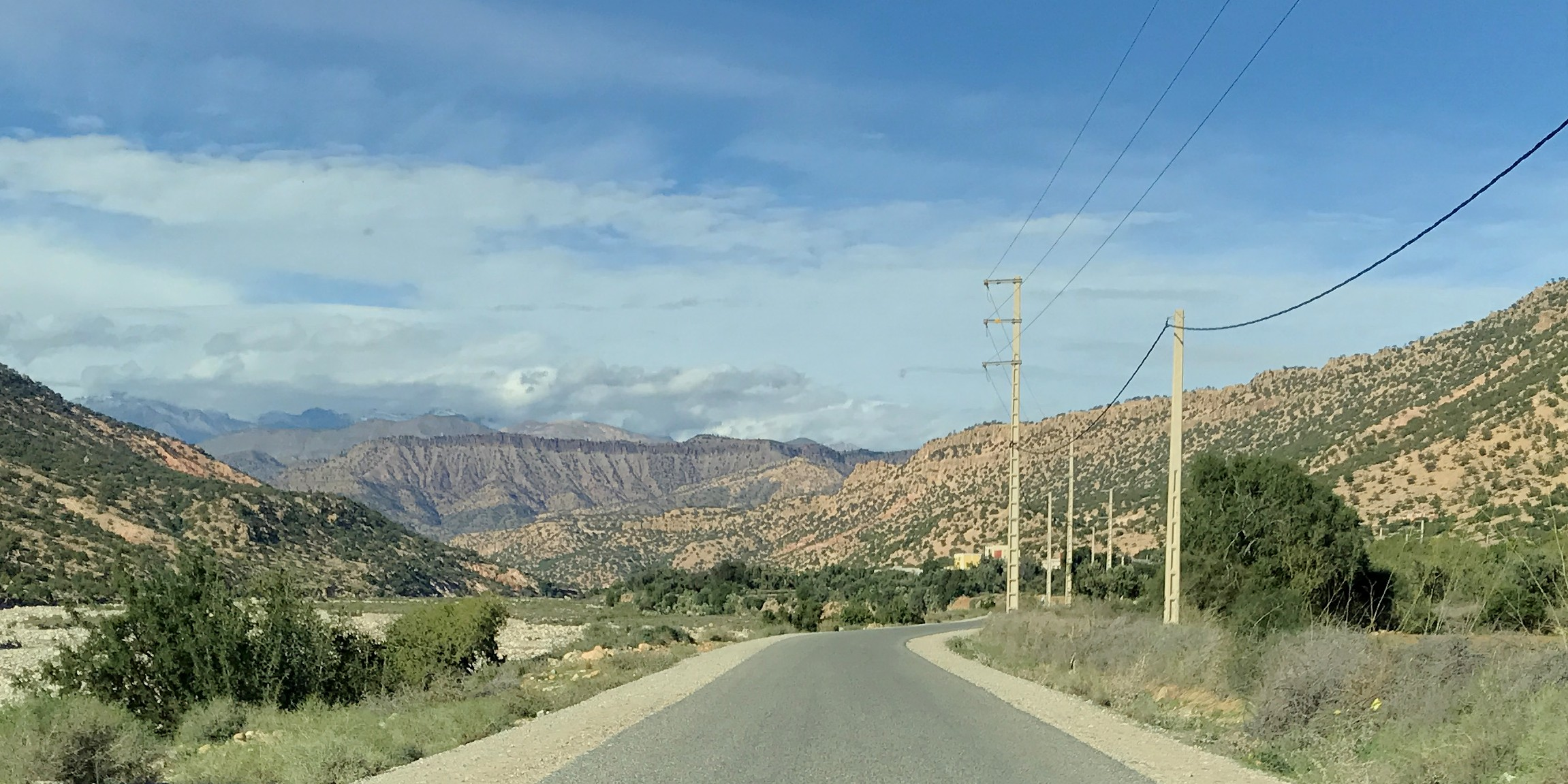 A picture shows the beautiful mountains on the road to Ida Ou Gailal